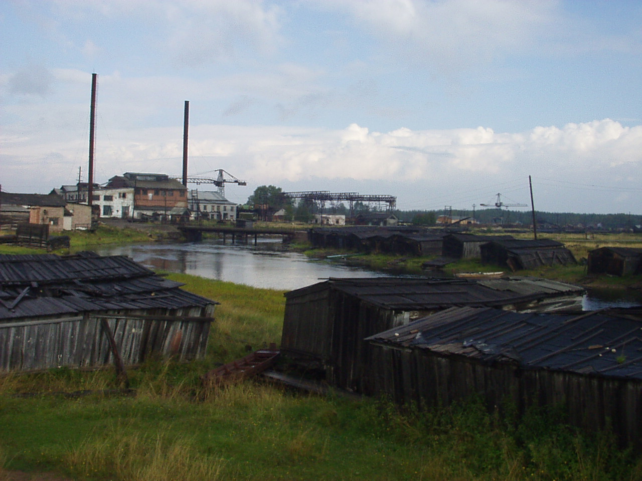 Samoded settlement, Plesetsky raion, Arkhangelskaia oblast